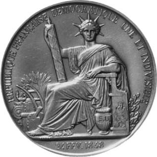 The Great Seal of the French Second Republic